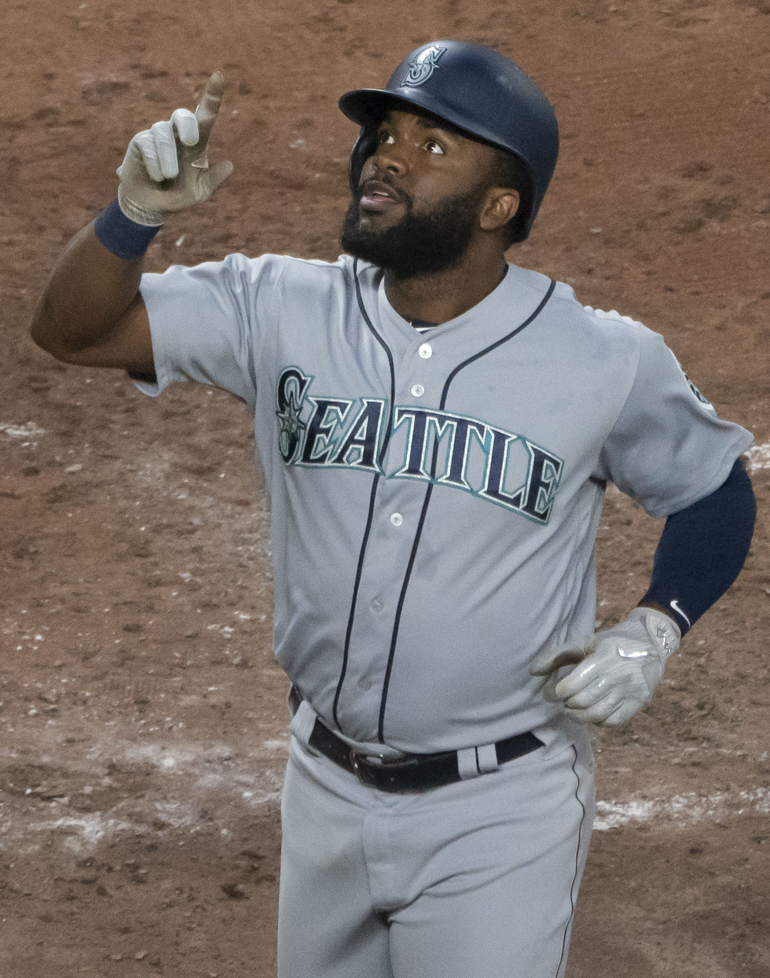 Mariners at Orioles 6/25/18